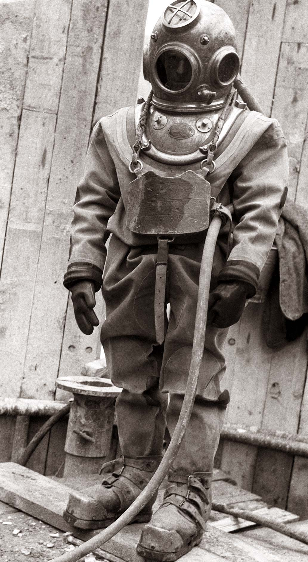 Diver in standard diving dress at the Ožbalt hydroelectric power plant construction site.